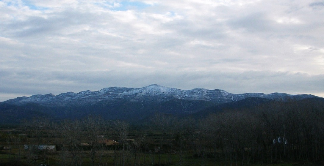 Serra del Montsiá. Snow on the highest peaks